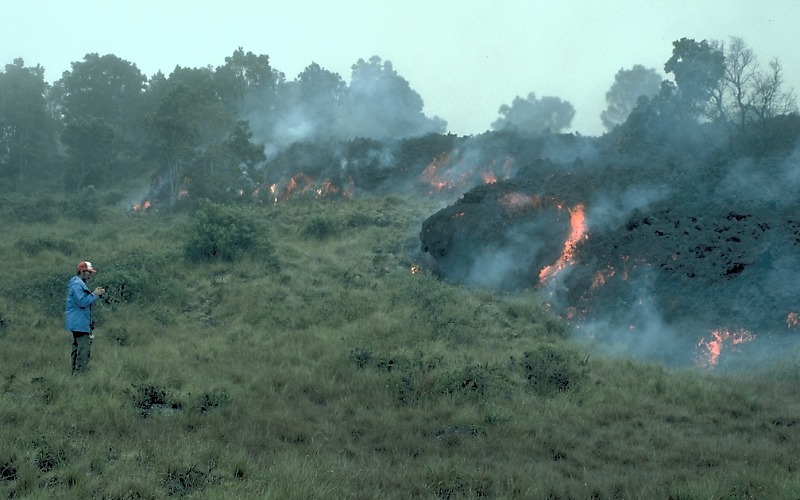 A lava flow from Mauna Loa moves across a field. Photo by